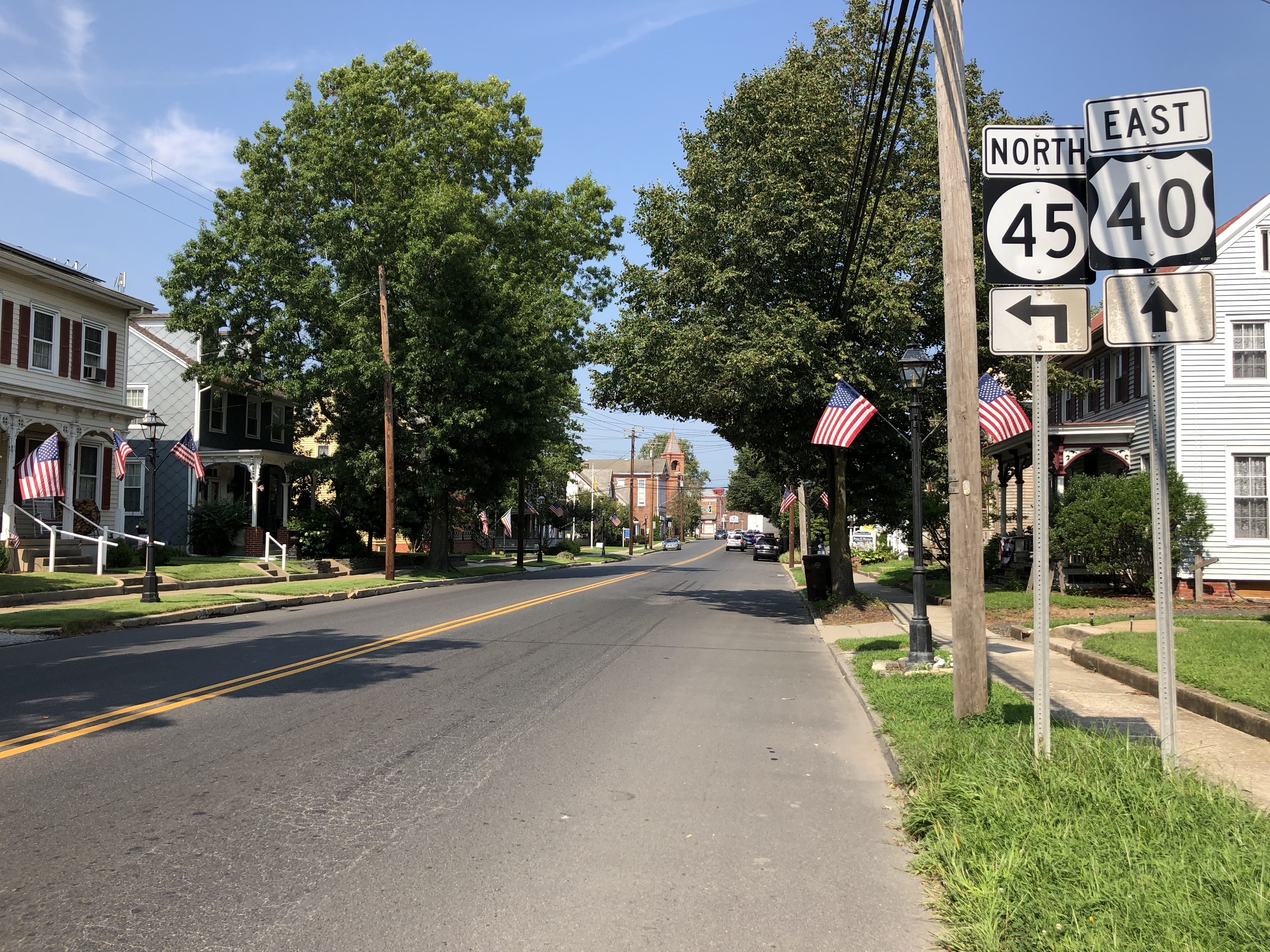 View east along U.S. Route 40 and north along New Jersey State Route 45 (West Street) at Spring Garden Street in Woodstown, Salem County, New Jersey